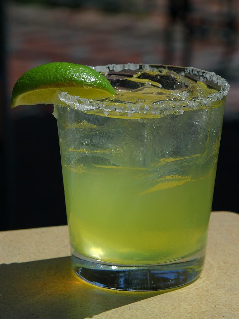 Margarita